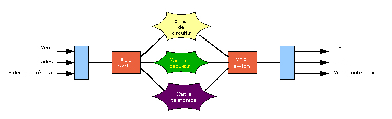 This is a new version (and better) of XDSI.jpeg that I have made by myself